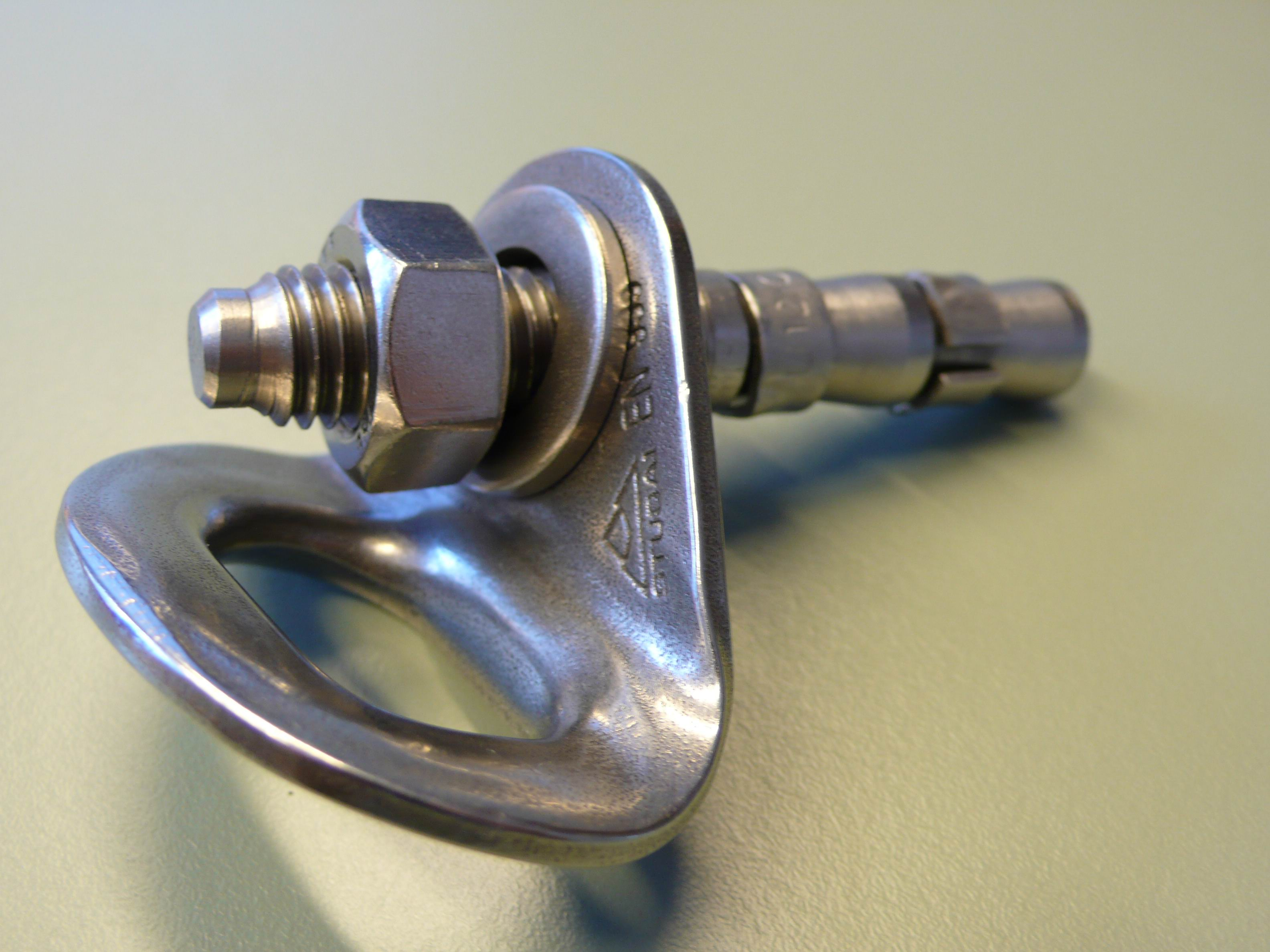 Bolt hanger with expansion anker